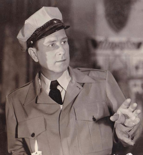 Bud Abbott in a crop from a promotional photograph for Abbott and Costello Meet Frankenstein in 1948